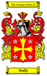 The family crest of the Scally Family